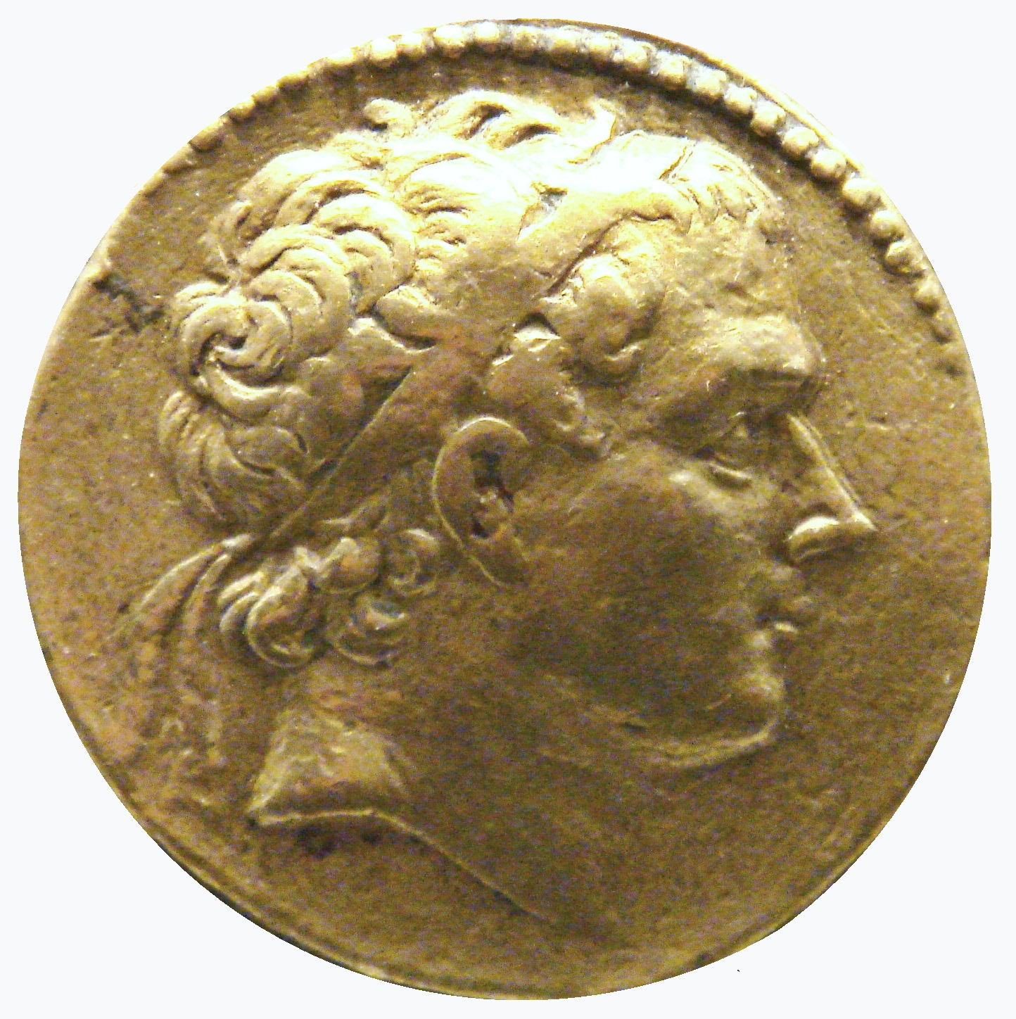 coin of Antiochos III